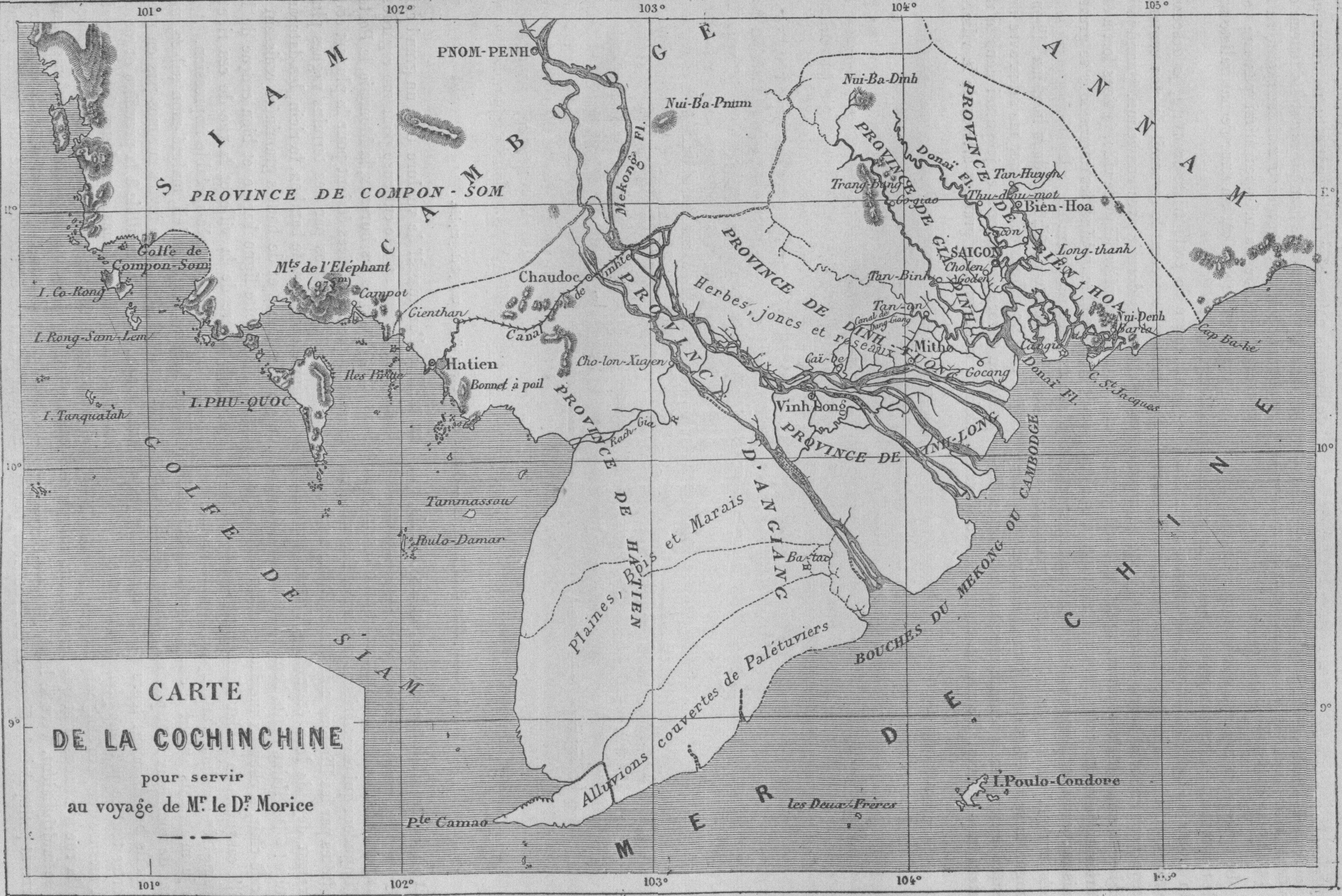 Frech Cochinchina in 1872